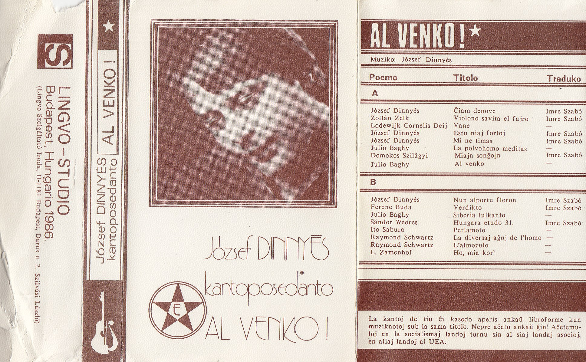 Joseph Dinnyés songs audio cassette cover 1986